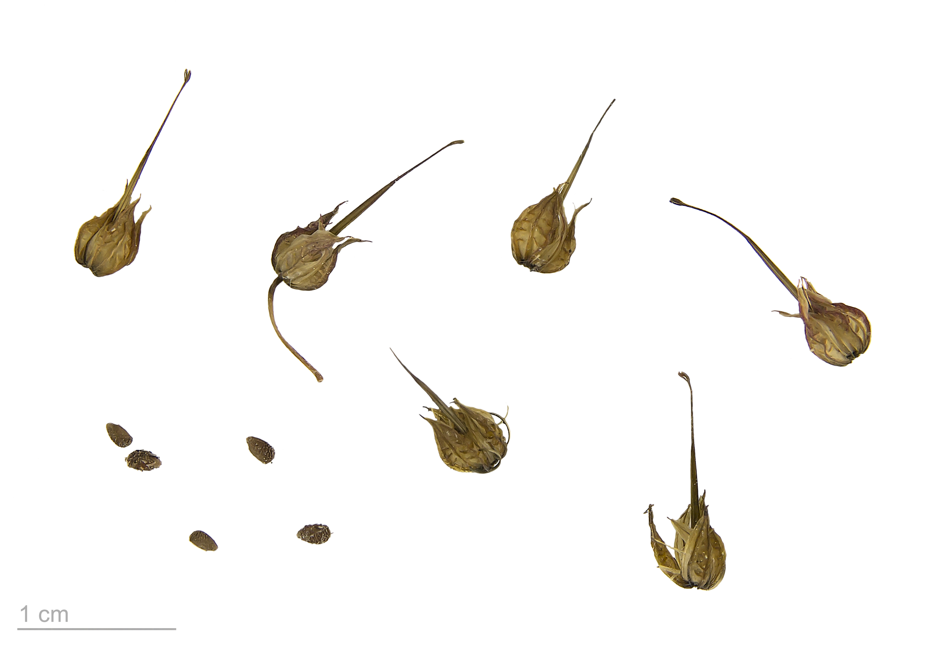 Geranium lucidum, , seeds